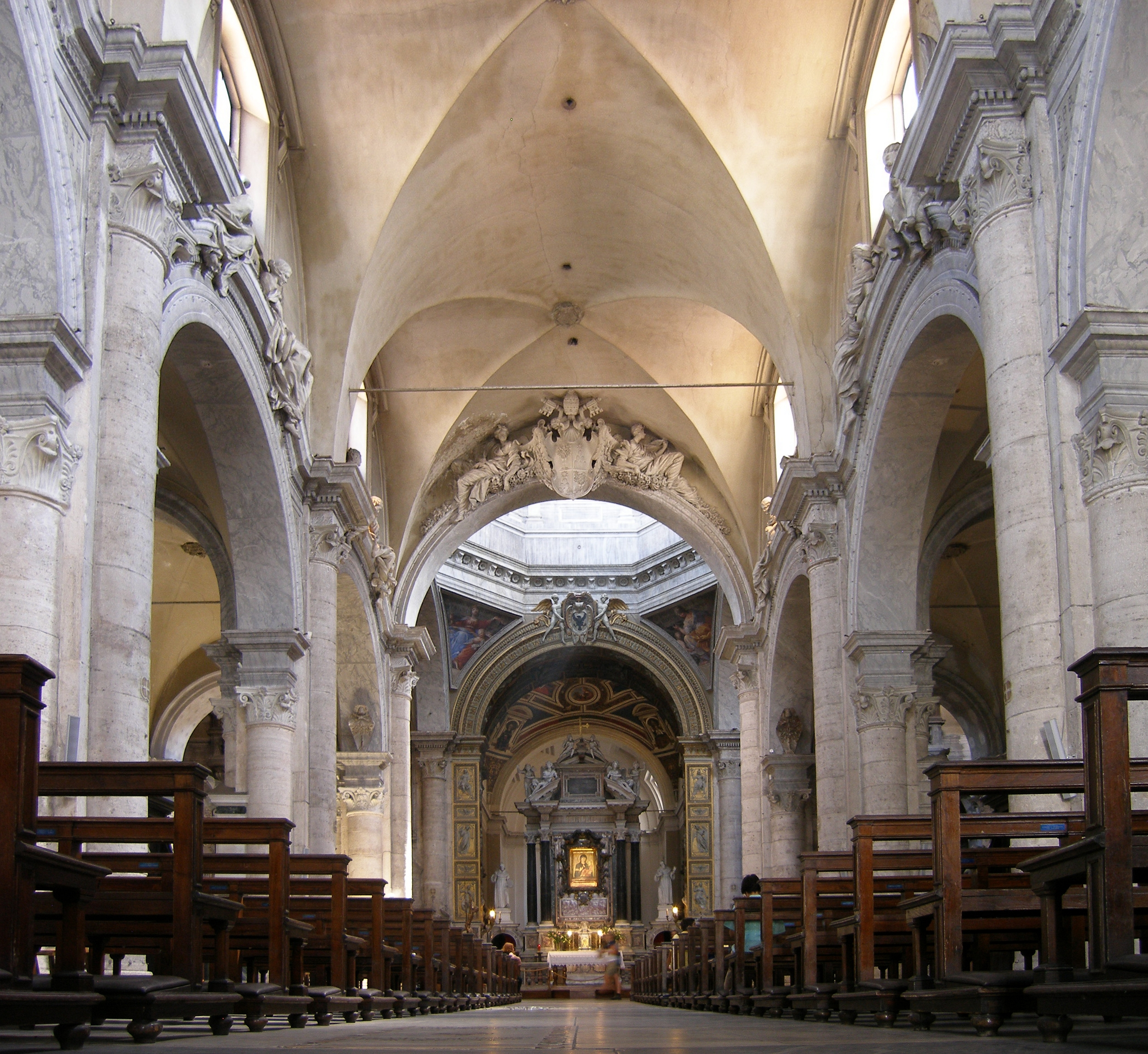 Rome, Interior of the basilica Santa Maria del Popolo